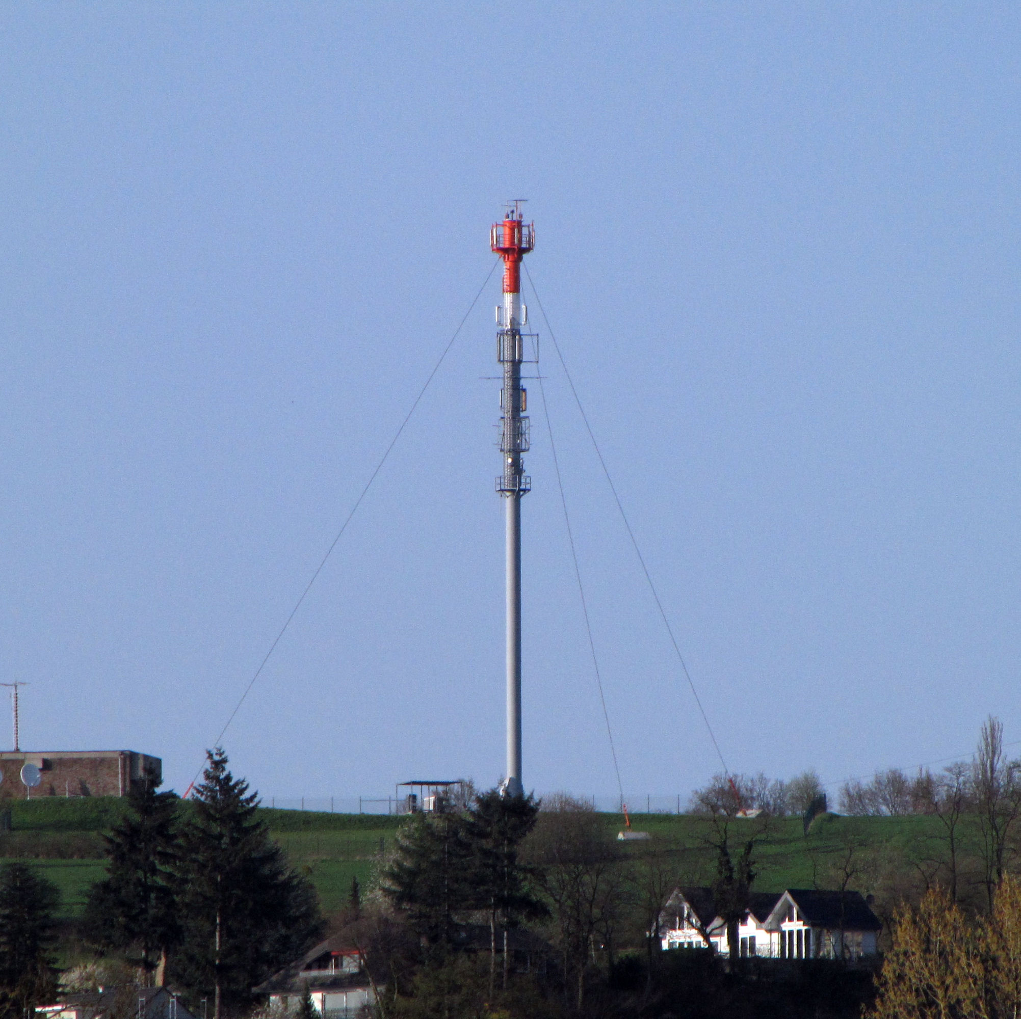 Sender Bendorf-Vierwindenhöhe